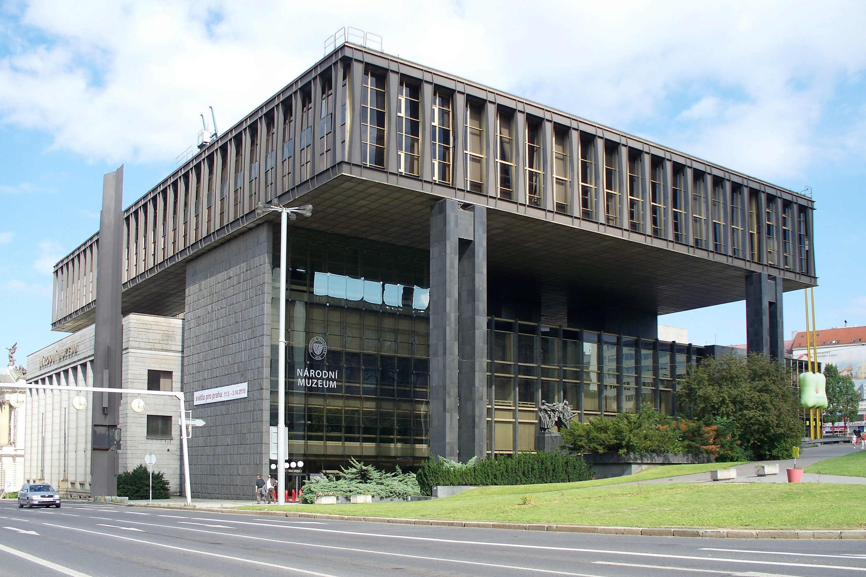 Federální shromáždění in Prague, 2010.